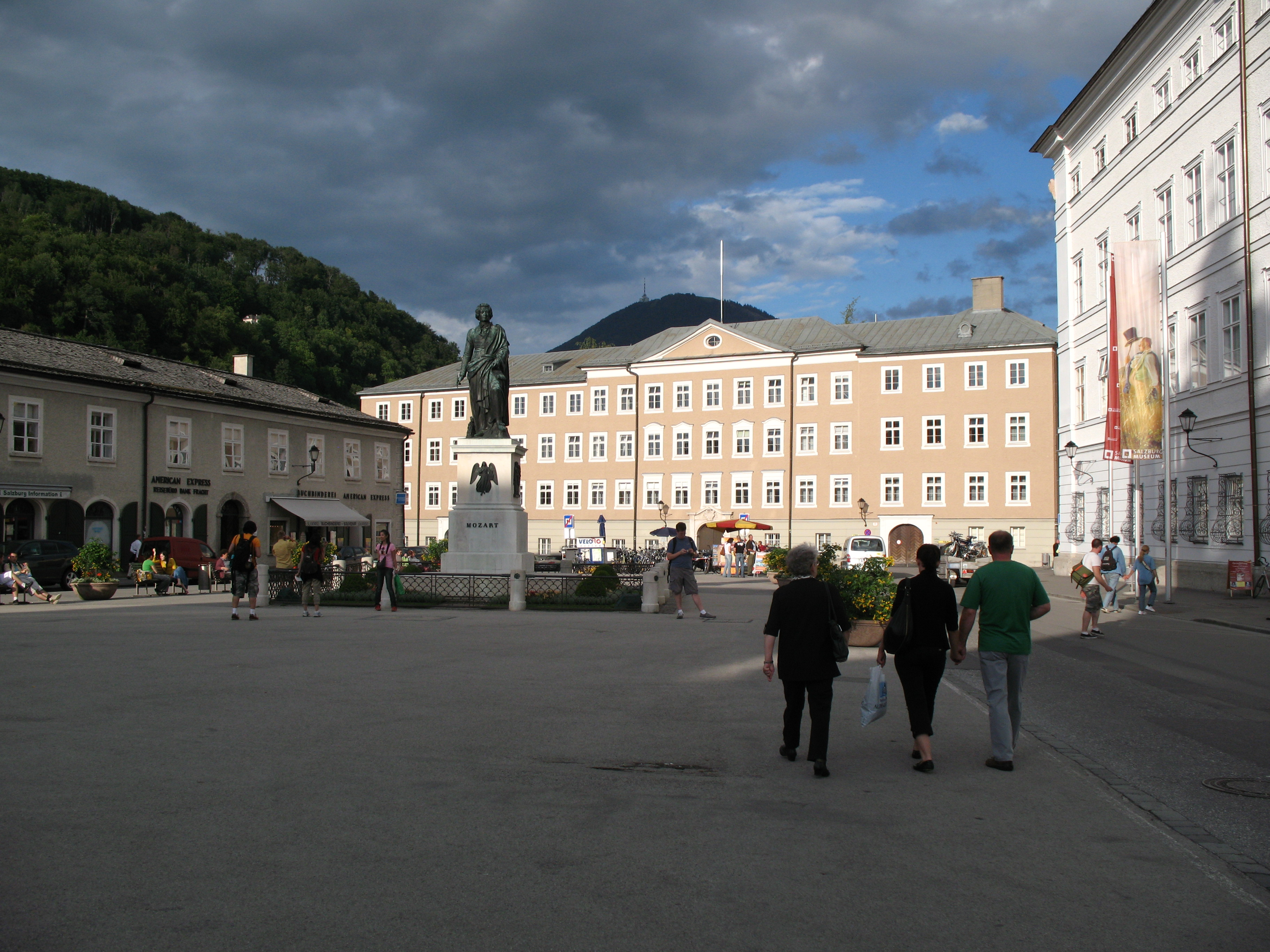 Austria, Salzburg, Mozartplatz